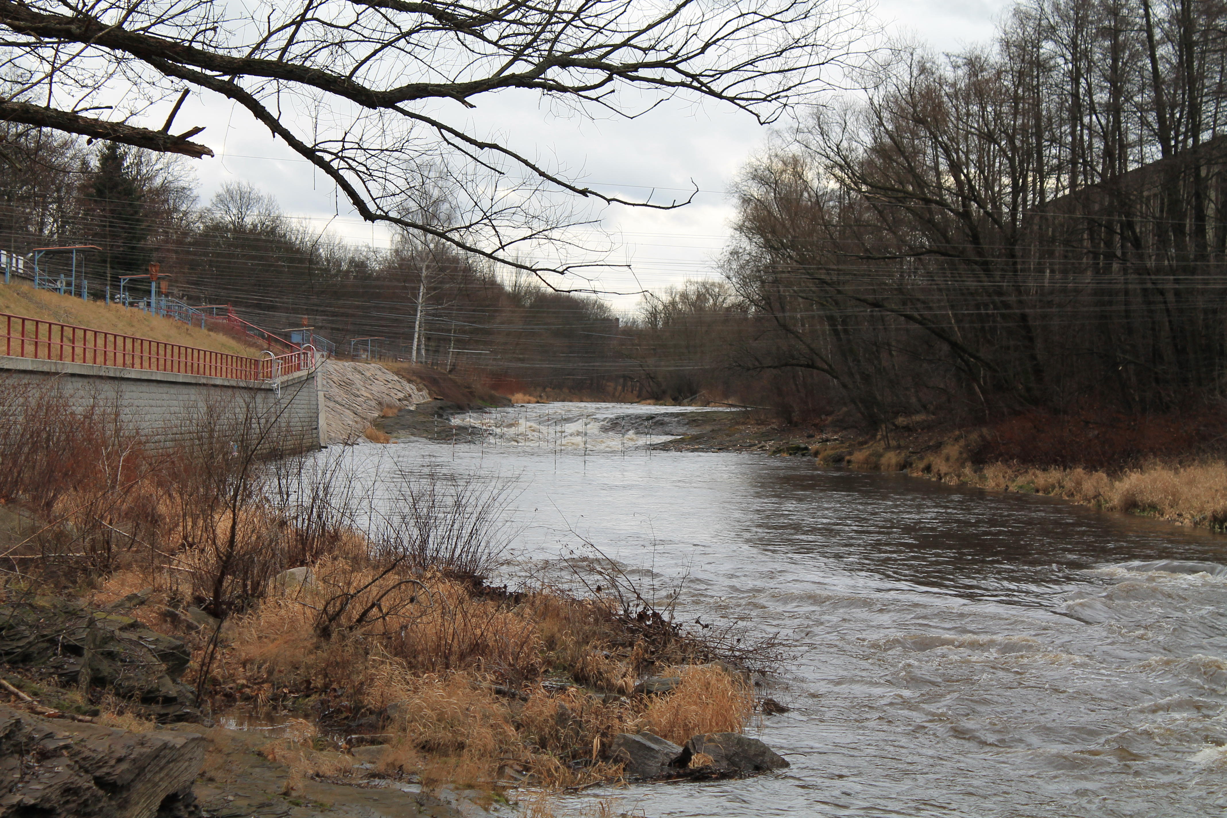 Whitewater racing course at Zwickauer Mulde. Cainsdorf, city of Zwickau, Saxony, Germany.